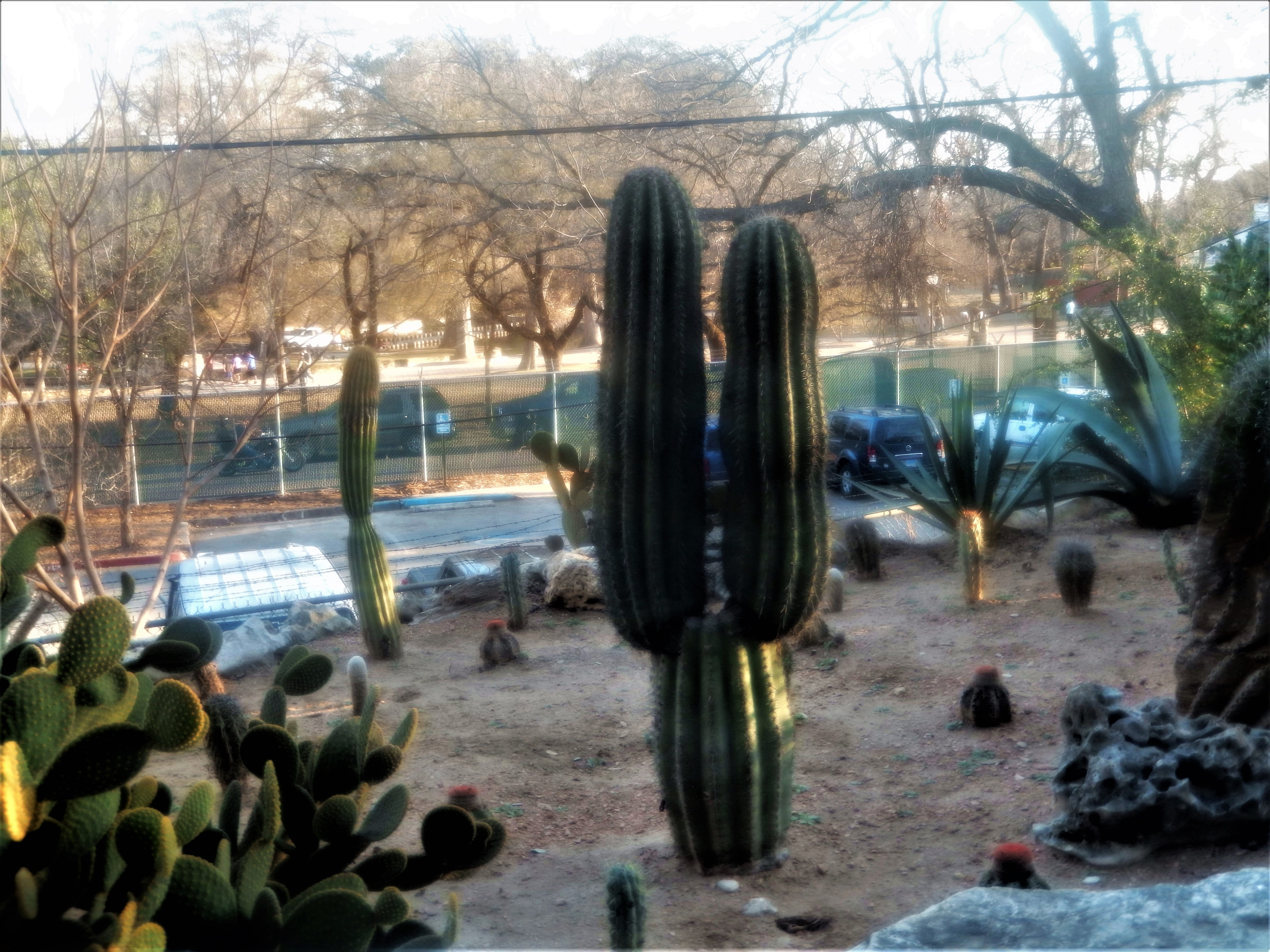 I took photo of desert plant exhibit at San Antonio Zoo, with Nikon camera.